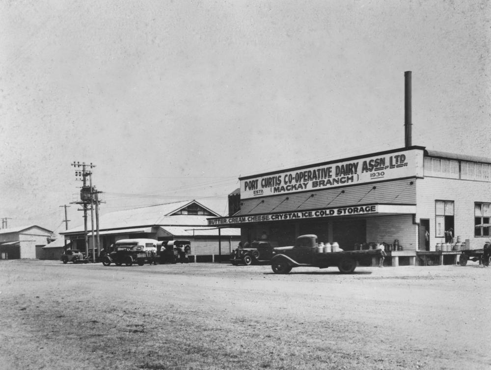 Port Curtis Co-operative Dairy Association Ltd., Mackay, 1937 Weatherboard building incorporating the Port Curtis Co-operative Dairy Association Ltd., (Mackay Branch). Building features include an awning over the loading dock, a raised platform for loading and unloading produce transported in churns. Signage for this firm is displayed over and on the awning which describes the business operation of this factory. The company was involved in the manufacture and storage of butter and other dairy products.